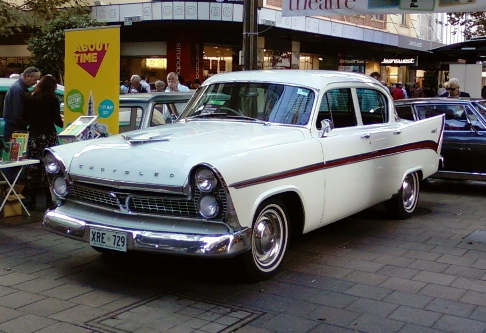 Chrysler AP3 Royal, as produced by Chrysler Australia from 1960 to 1964.